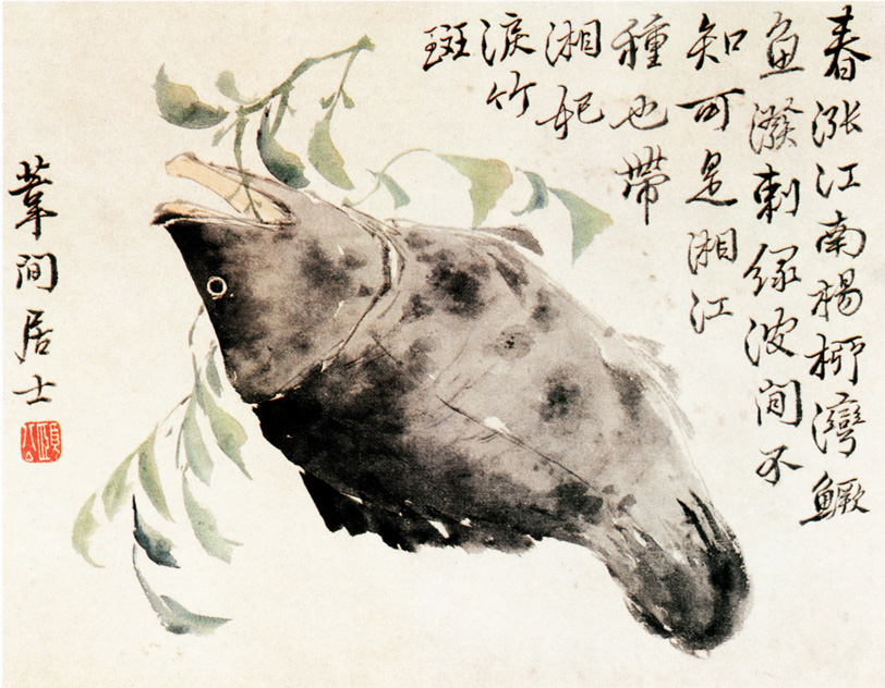 Mandarin Fish, Bian Shoumin, Qing Dynasty, China, Wuxi Antique Store